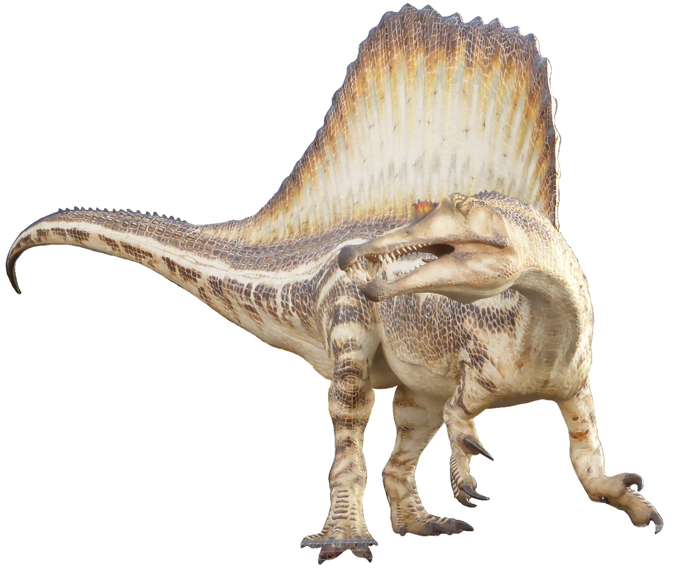 Dinosaur in front of the Museu Blau in Barcelona